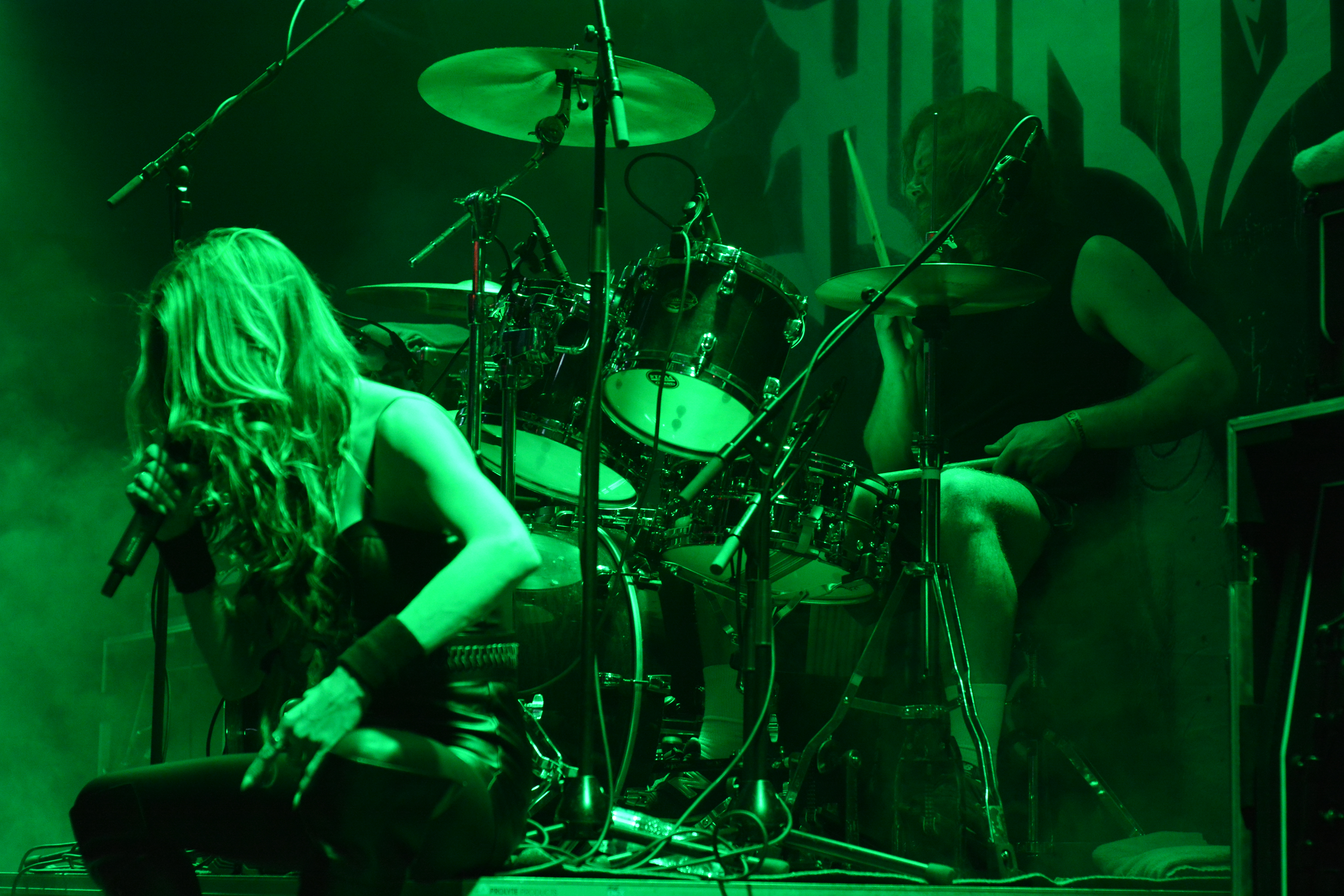 Huntress in concert